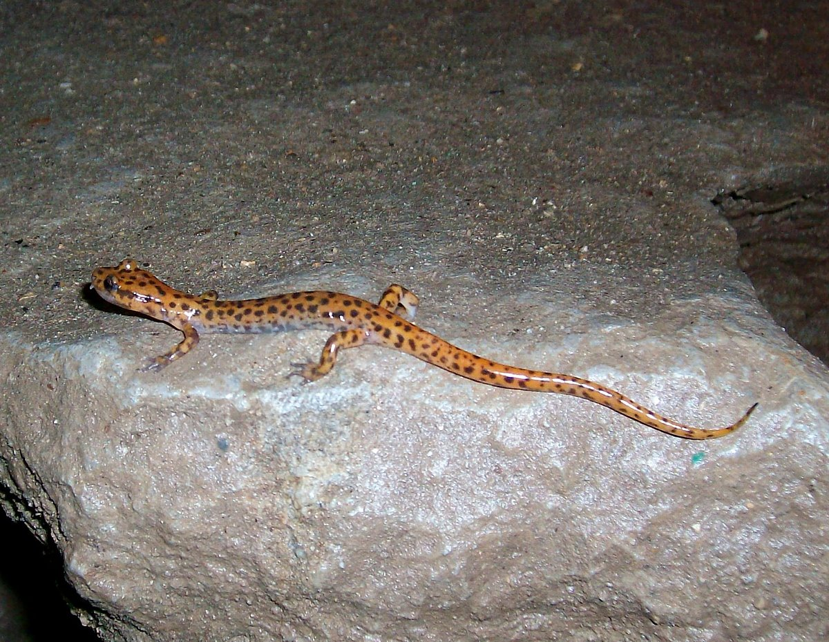 Spotted-tail Cave Salamander, Southeastern Missouri.